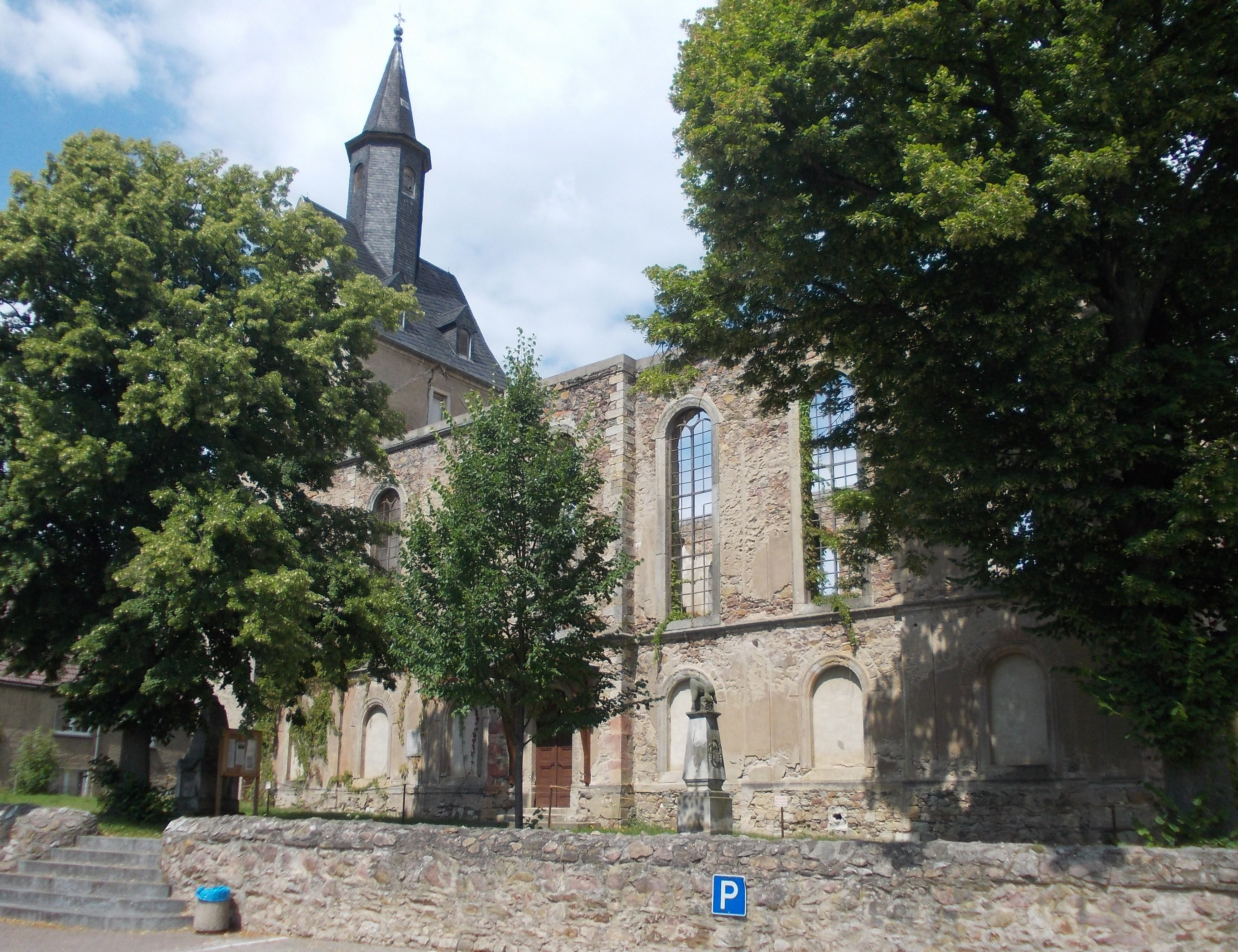 Mochau church (Mittelsachsen district, Saxony)